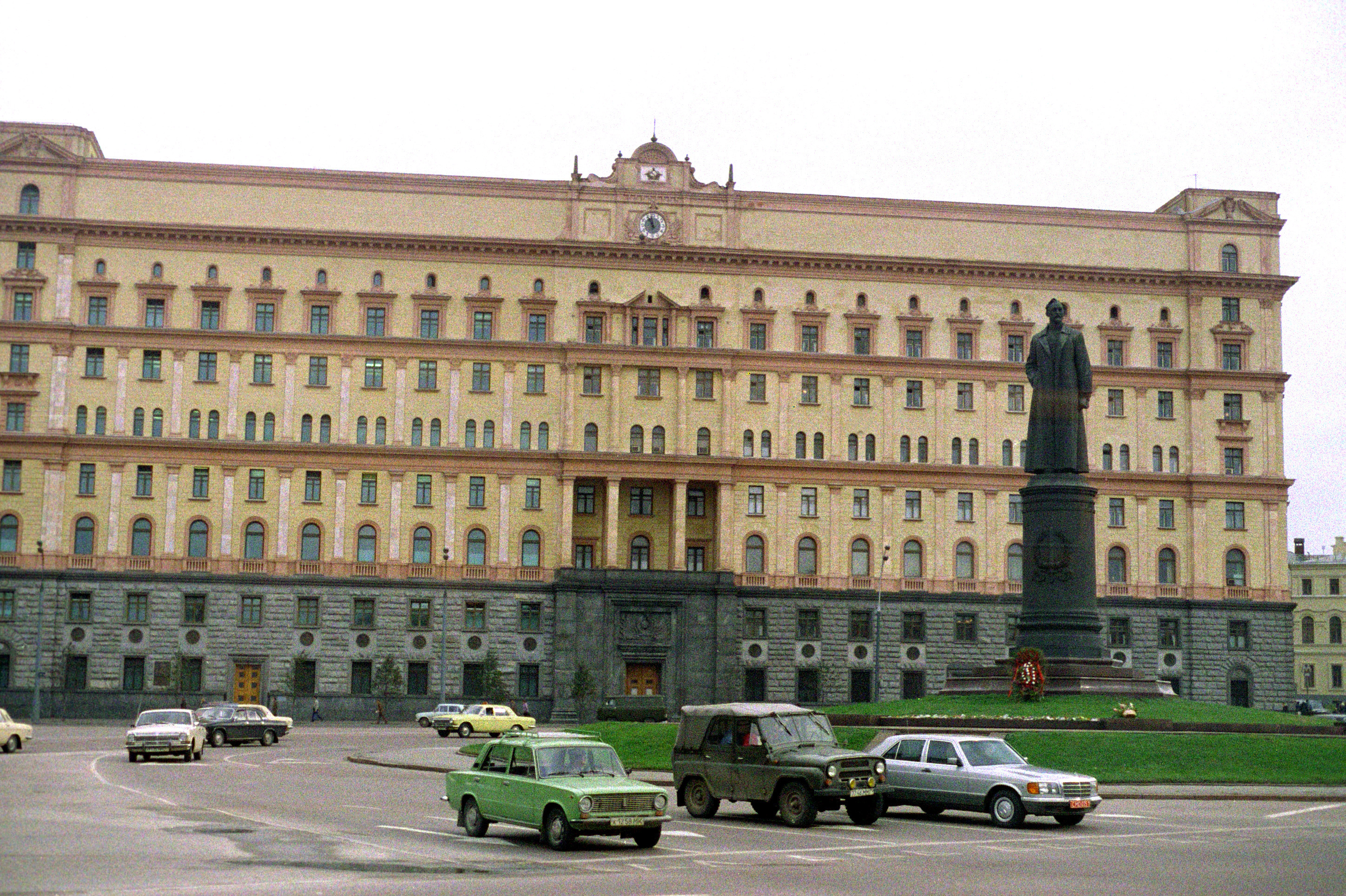 A view of the offices of the KGB Soviet State Police located on Dzerzhinski Circle, a few blocks from Red Square.